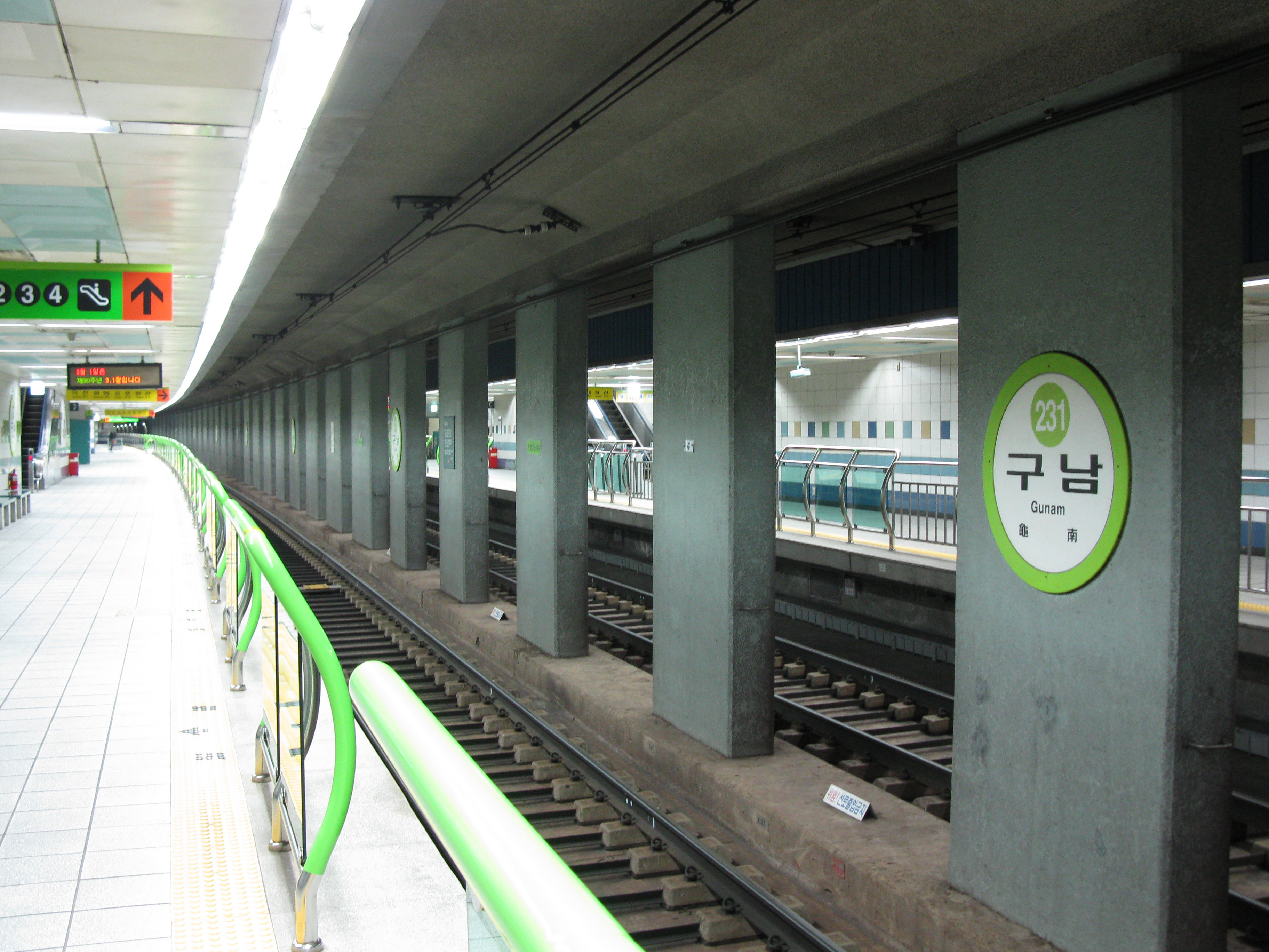 Gunam Station platform (Busan Subway Line 2)